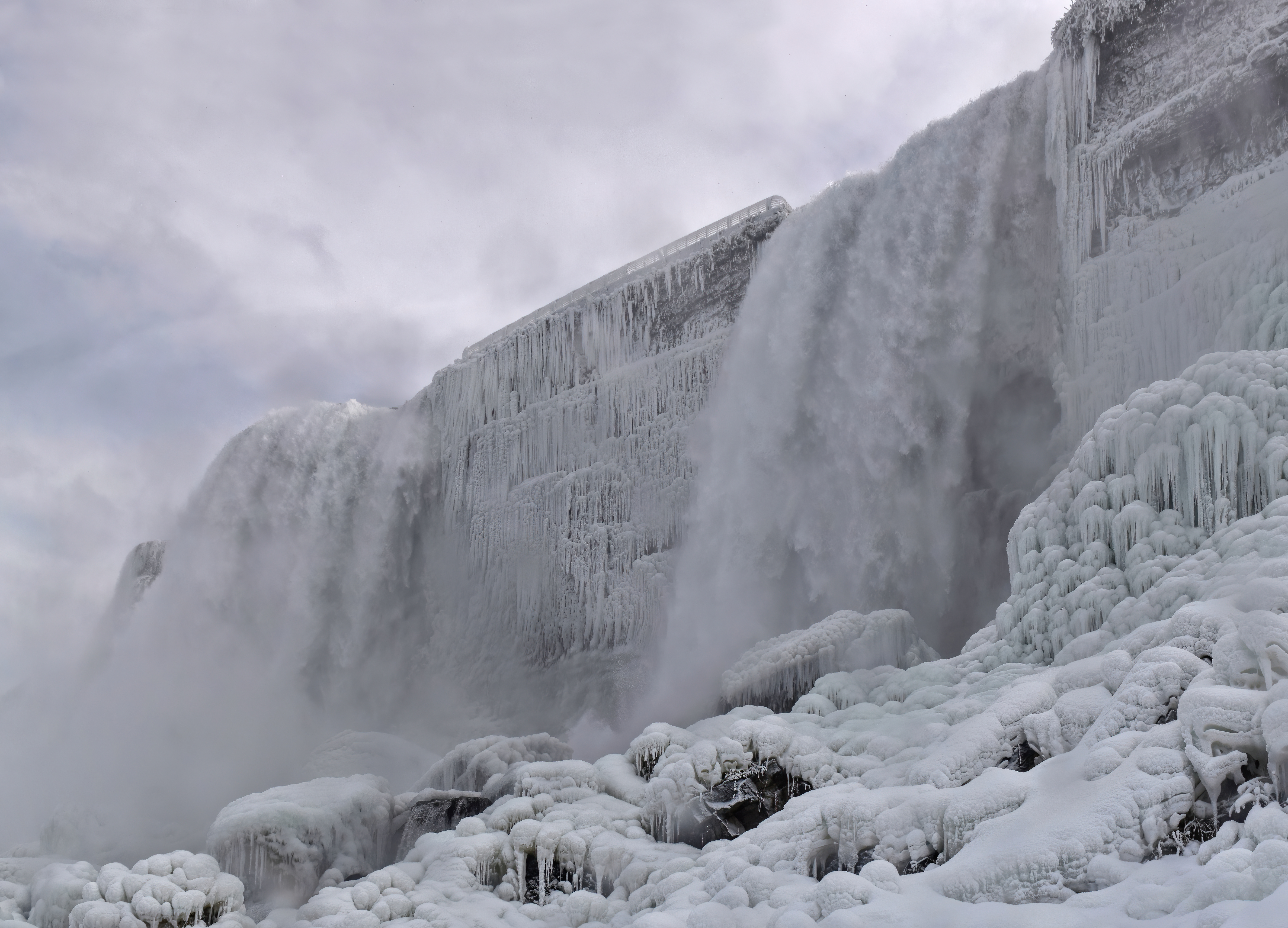 American and Bridal Veil Falls seen from the Cave of the Winds deck.